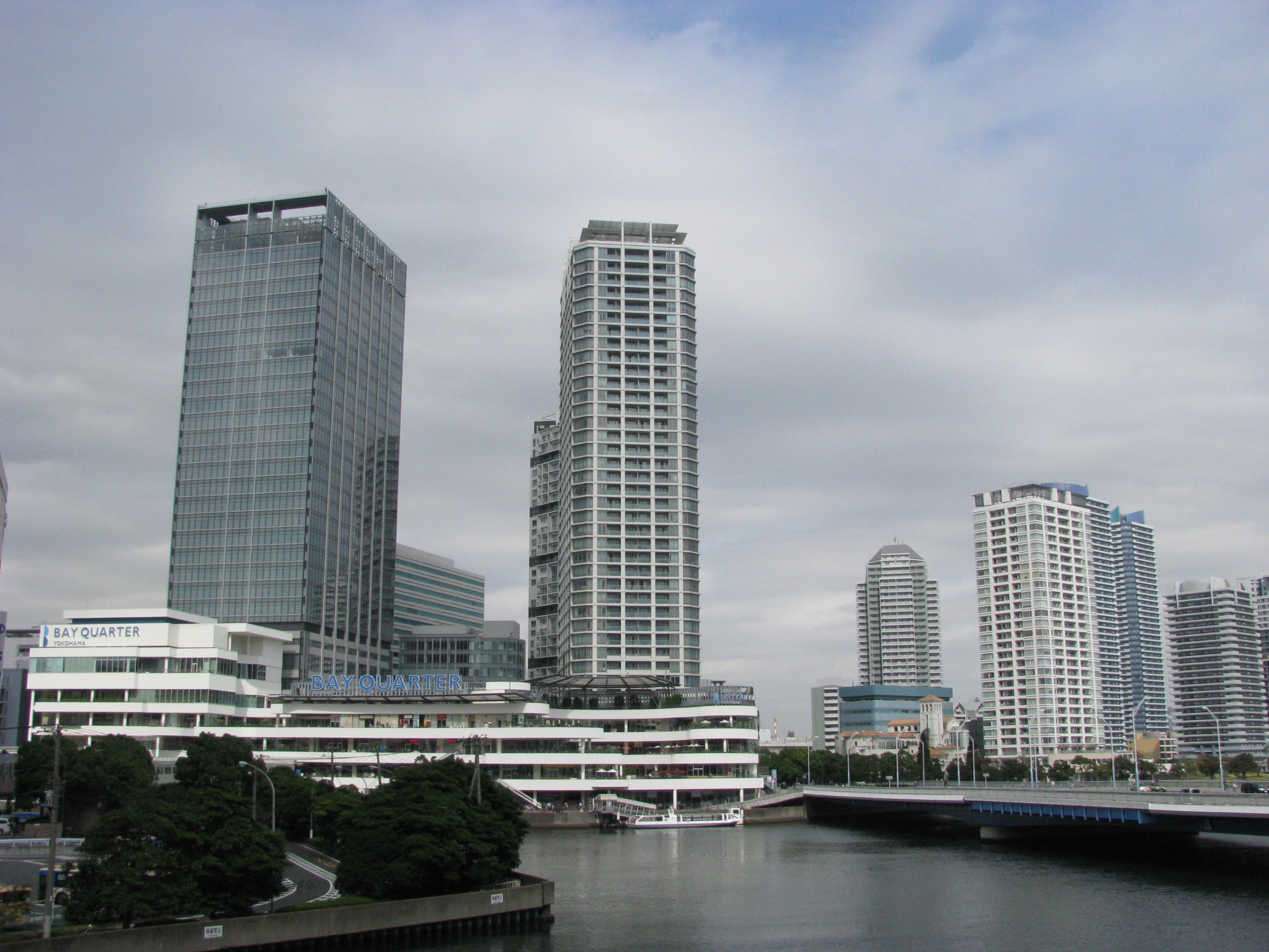 View of Port side area in Kanagawa-ku, Yokohama, Kanagawa Prefecture, Japan.